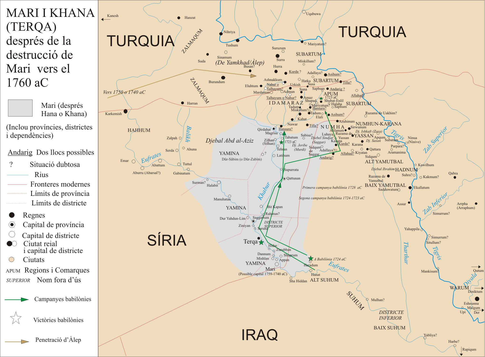 Hana (Terqa) avout 1760-1750 aC